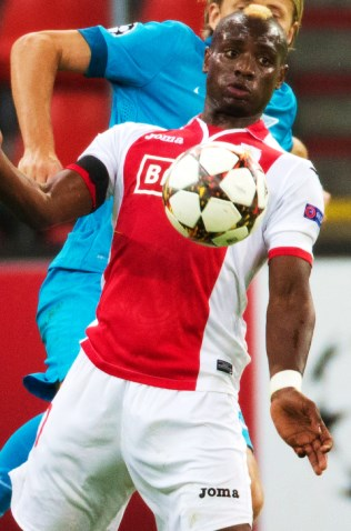 Paul-Josè Mpoku